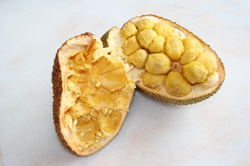 A cut-open cempedak fruit, showing the fleshy pulp inside.